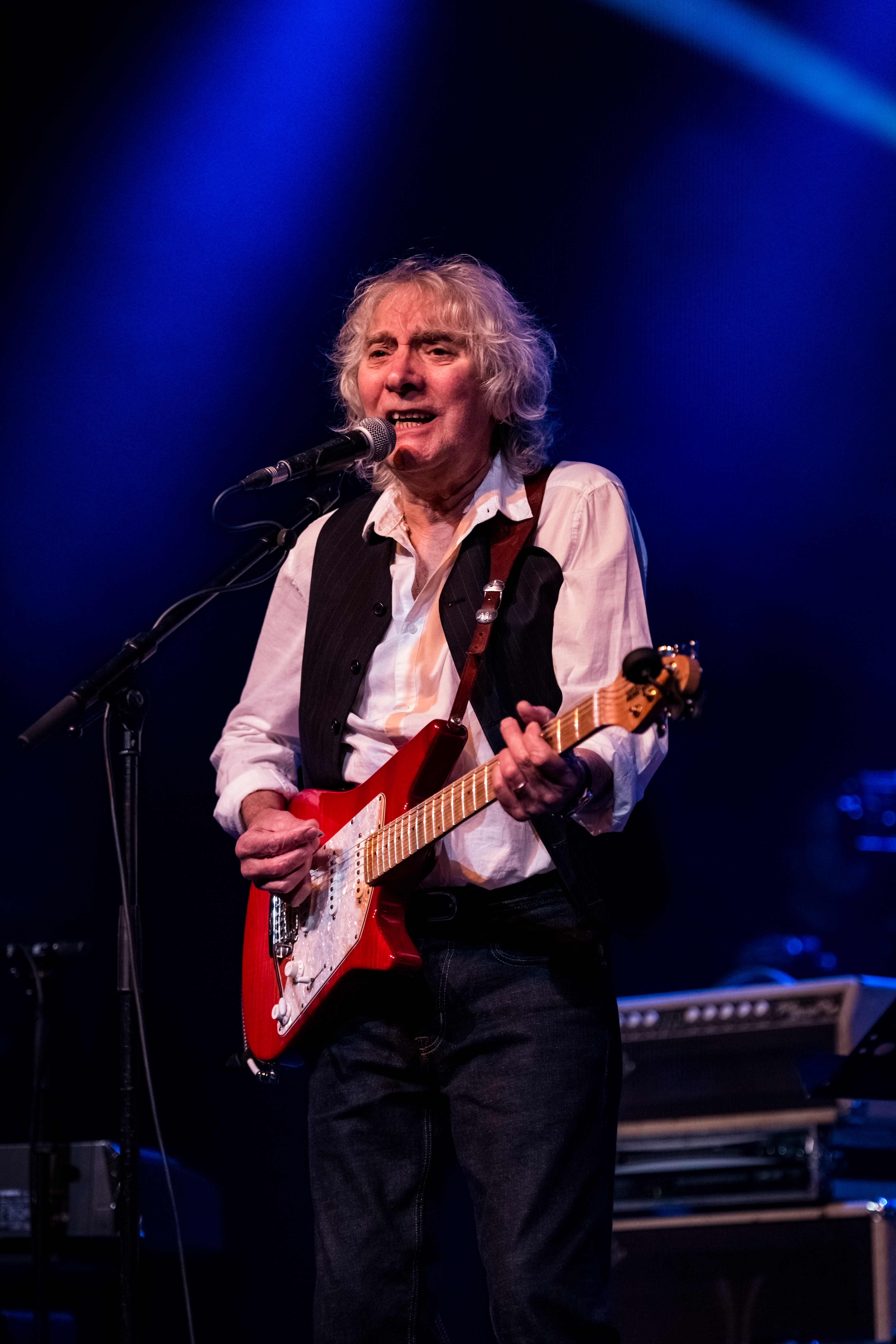 Albert Lee - Leverkusener Jazztage 2017